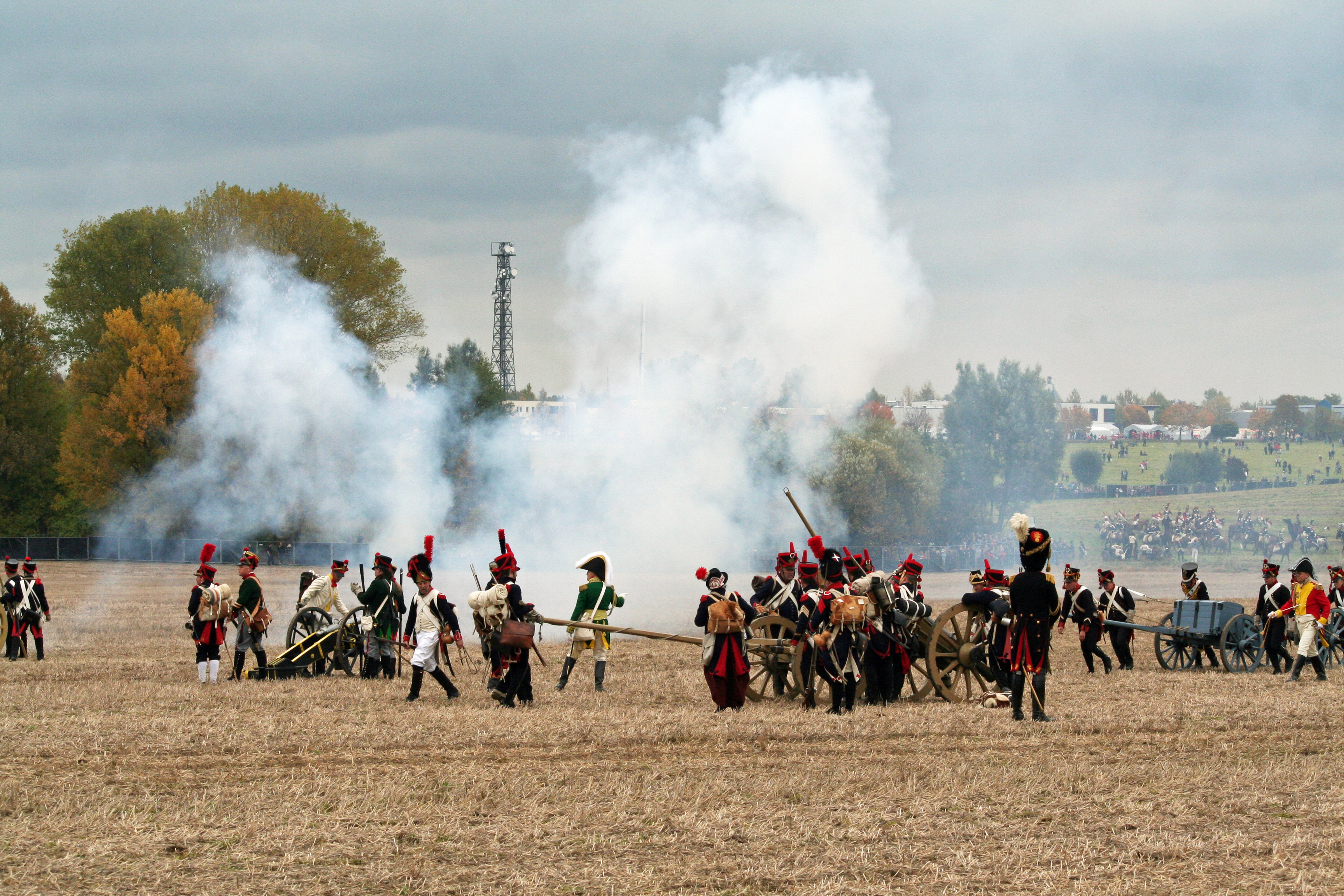 Reenactment of the Battle of Leipzig 2013